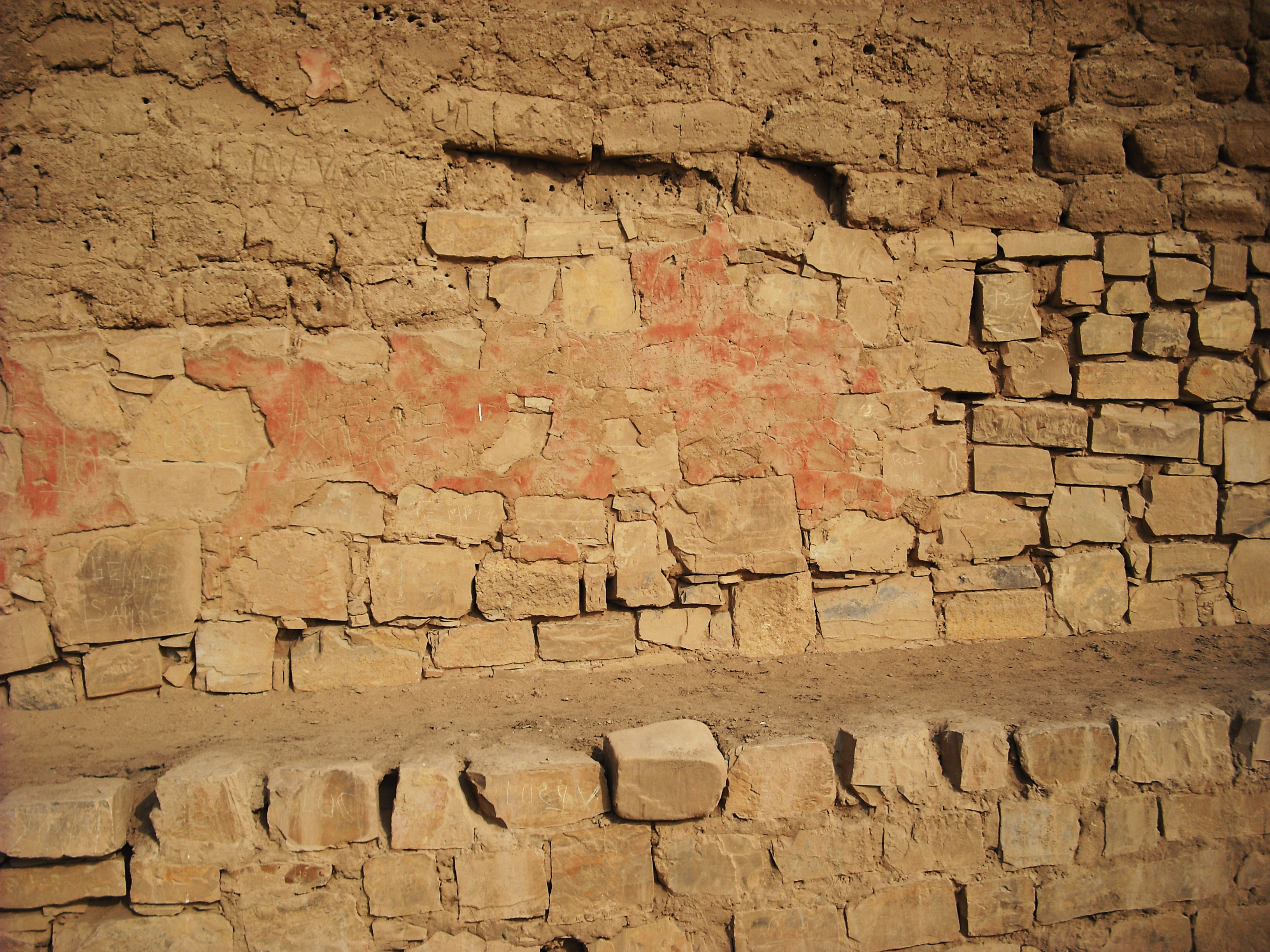 Pachacamac archeological site, Temple of the Sun, red plaster